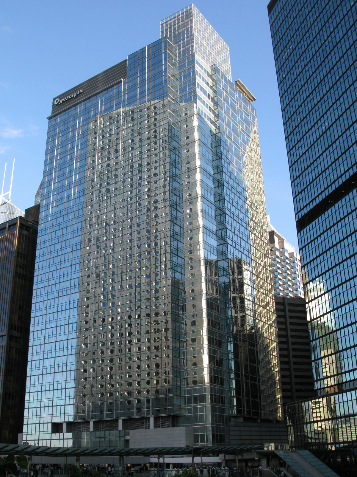 Reflection of Jardine House on Chater House